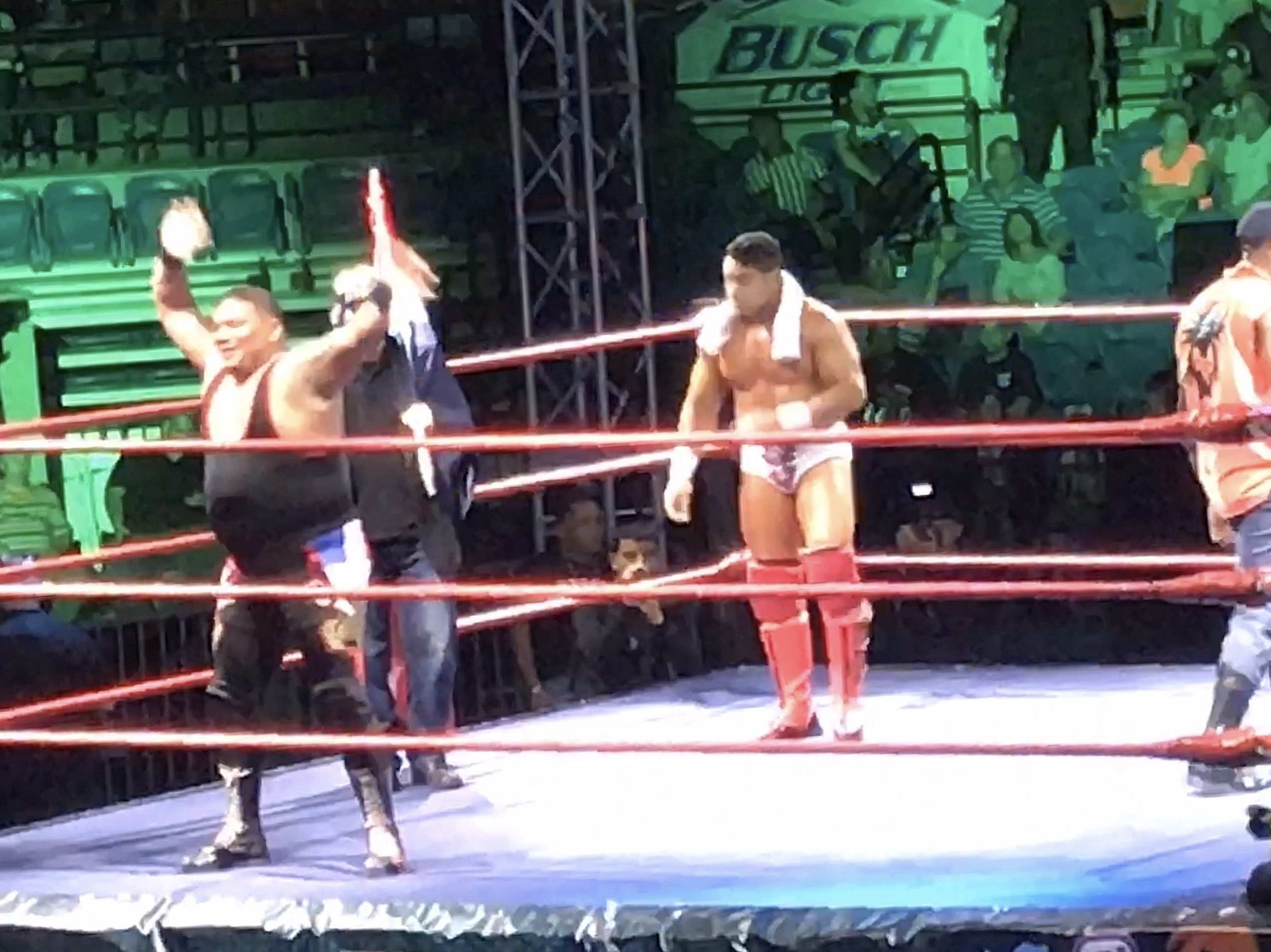 Profesional wrestling stable Los Caballeros de la Revolución at the International Wrestling Association.